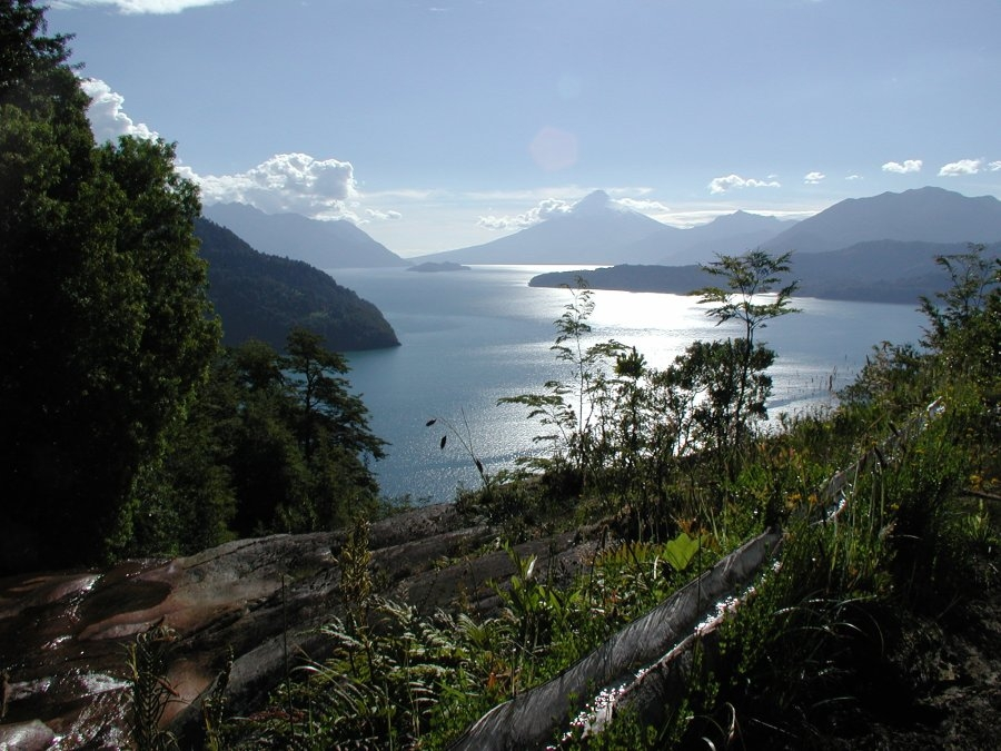 East-West view of the main body of lake Todos los Santos in Chile. In the background, Volcan Osorno. Photo taken from a farmer's homestead in the early afternoon of a summer day.